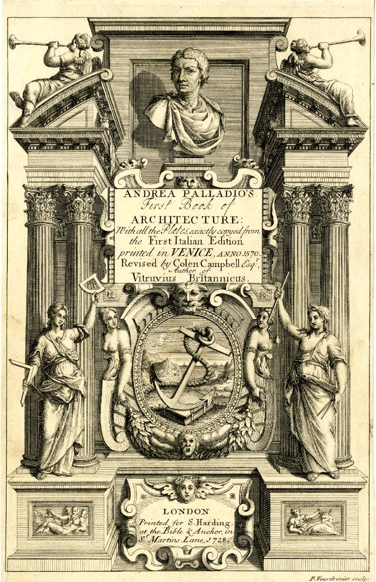 Frontispiece, to Colen Campbell's edition of Andrea Palladio's "First Book of Architecture," published by Samuel Harding at London, 1728, etching and engraving. 271 mm x 178 mm. Courtesy of the British Museum, London.